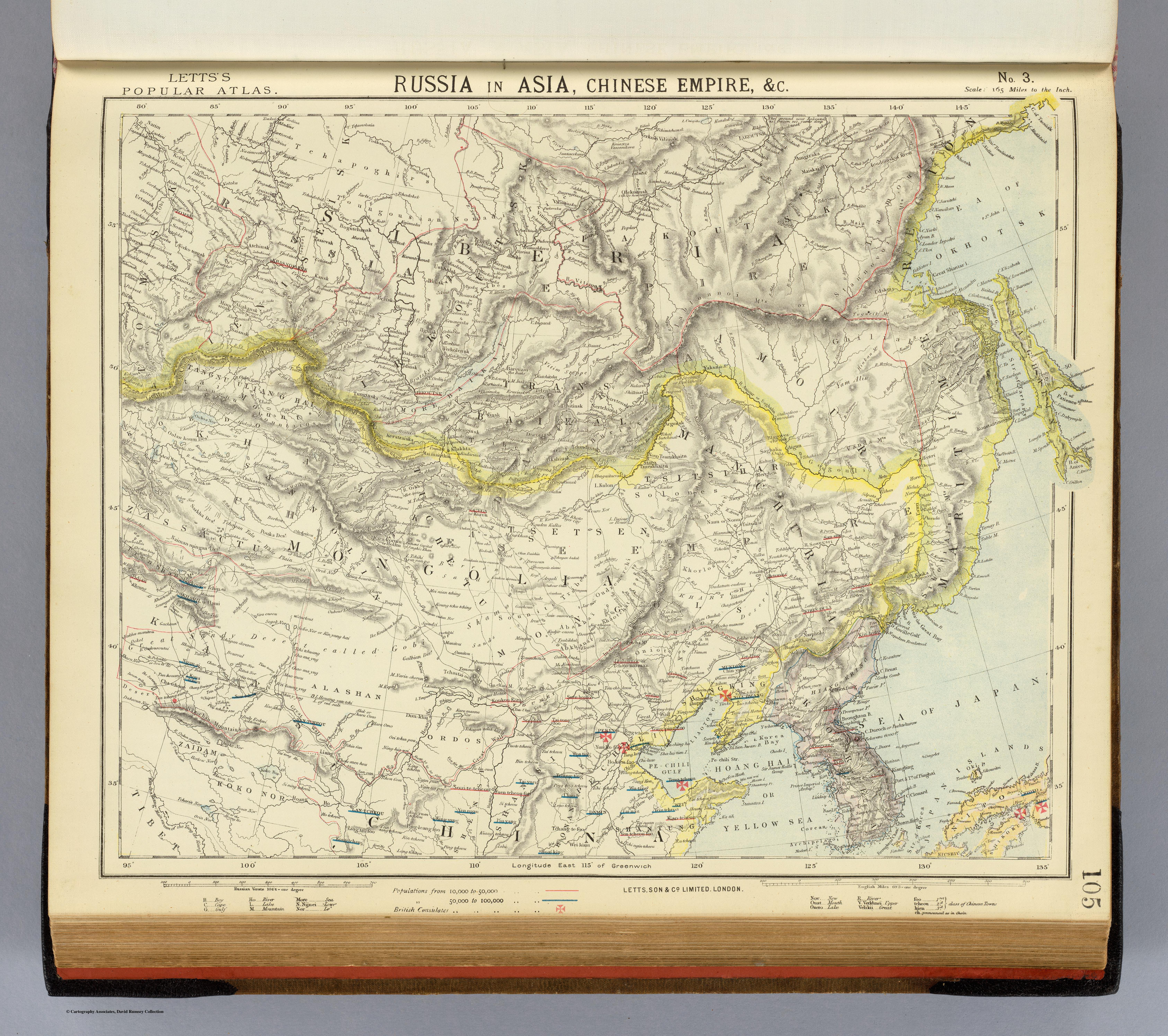 Russia in Asia, Chinese Empire, etc. No. 3